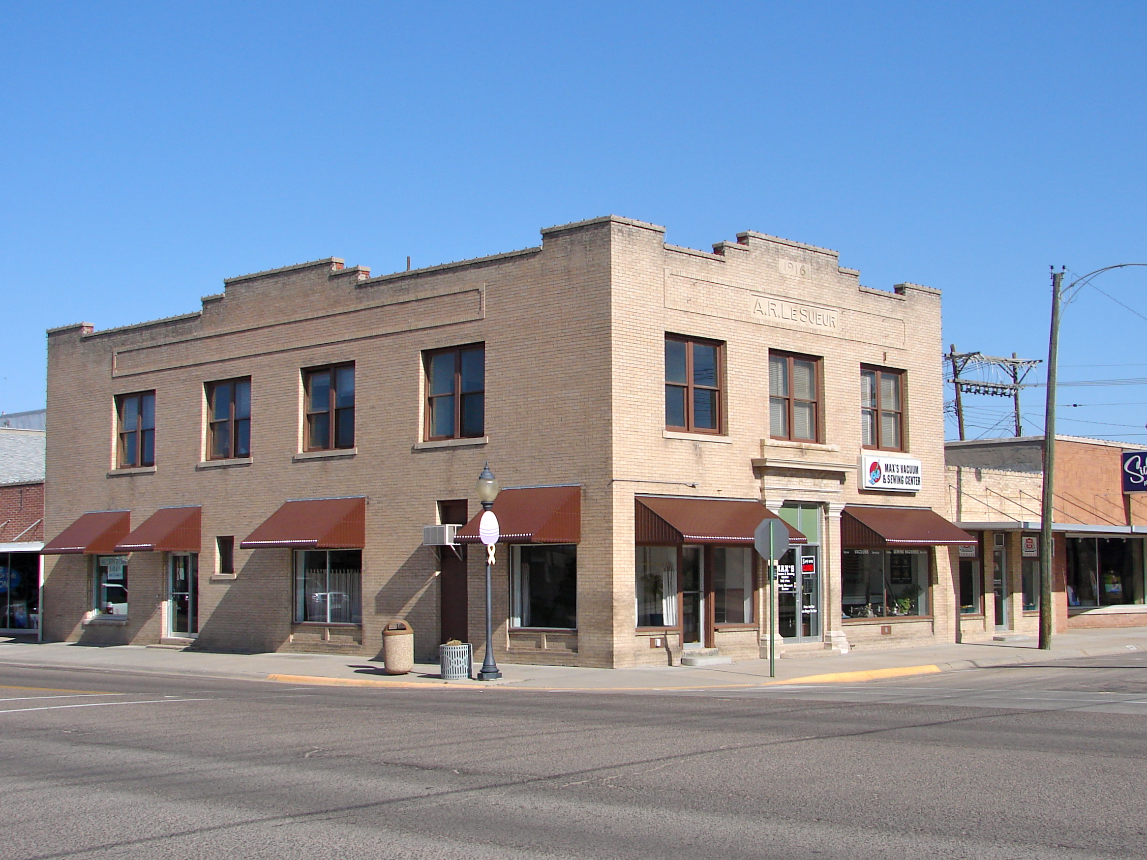 LeSeur Building, built 1916, in Sidney Historic Business District on NRHP since October 21, 1994. The HD is roughly bounded by Hickory and King Sts. and 9th and 11th Aves.; also roughly bounded by Hickory and King Sts. and 9th and 12th Aves in Sidney, Cheyenne County, Nebraska. Second set of addresses represents a boundary increase. This is on Illinois Street, US 30, in center of town.